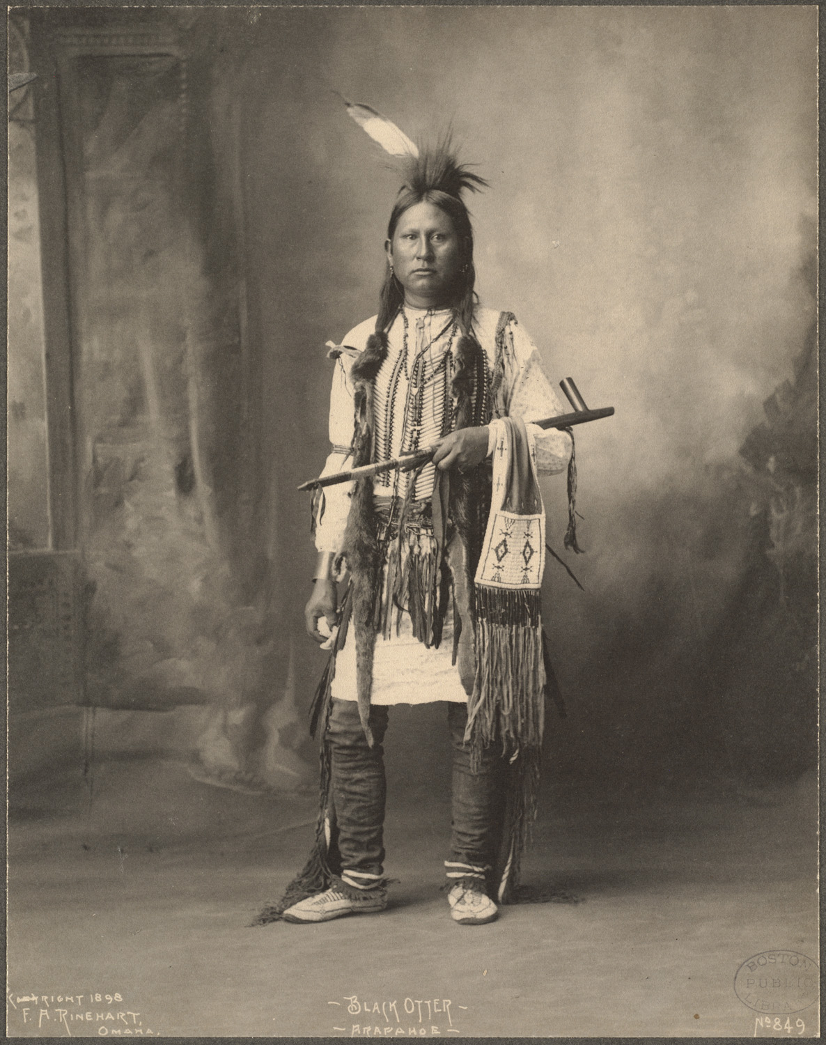 BPLDC no.: 09_06_000080 Rinehart no.: 849 Title: Black Otter, Arapahoe Photographer: Rinehart, F. A. (Frank A.) Copyright date: 1898 Extent: 1 photographic print : platinum Genre: Platinum prints; Portrait photographs Subject: Indians of North America; Arapaho Indians; Trans-Mississippi and International Exposition (1898 : Omaha, Neb.) BPL Department: Print Department